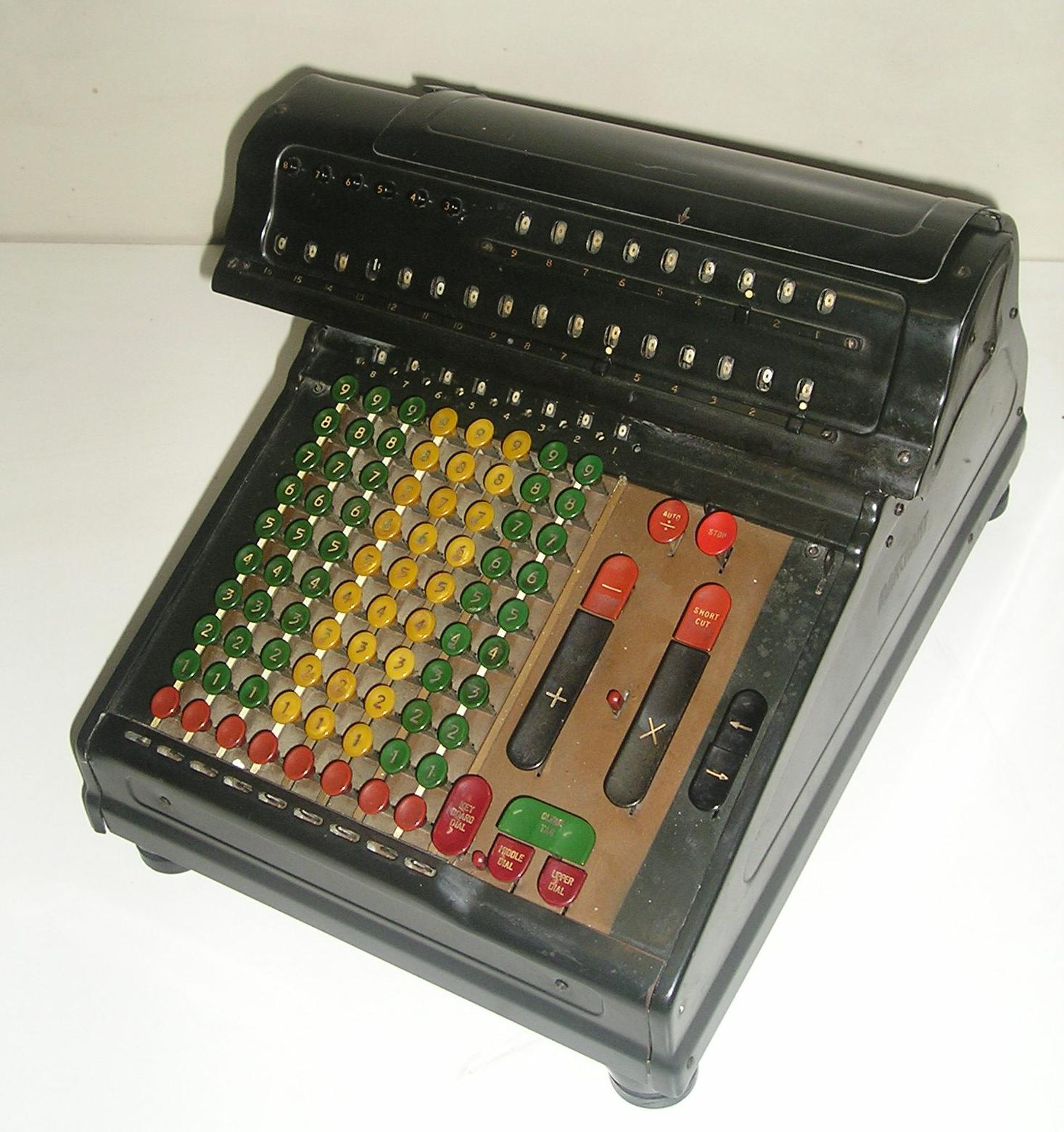 Marchant Silent Speed, simplest model 8D: capacity 8 x 9 x 16, no multiplication keyboard